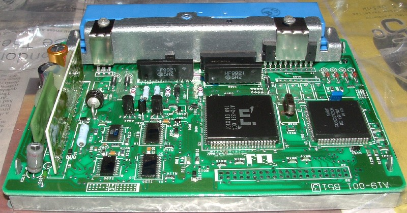 Late 90's JECS LH-Jetronic ECU. Much smaller, more integration, all custom ICs, maps no longer easily accessible. Unisia JECS logo bottom right and on main IC. Took photo myself, 16th October 2004, Christchurch, New Zealand, photo shows JECS GA16DE ECU.